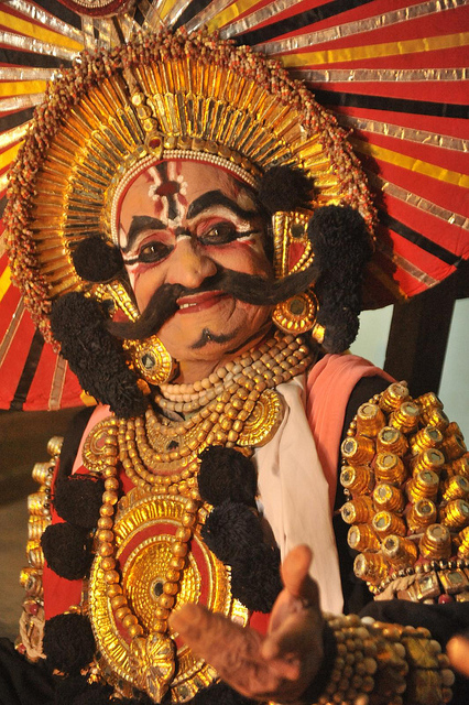 yakshagana